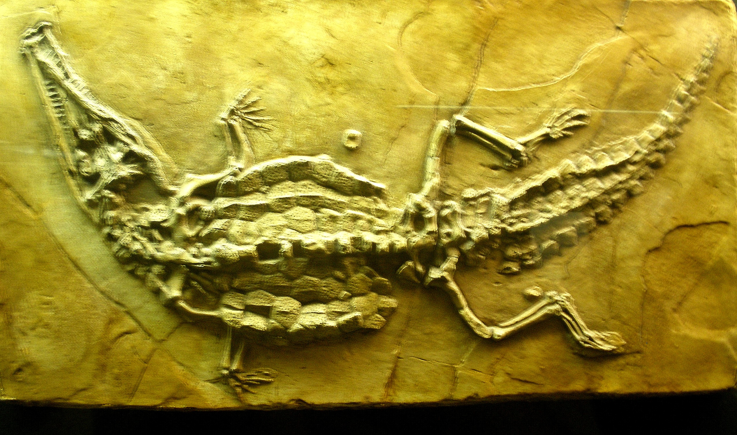 Took the photo at Museo di Storia Naturale di Bergamo